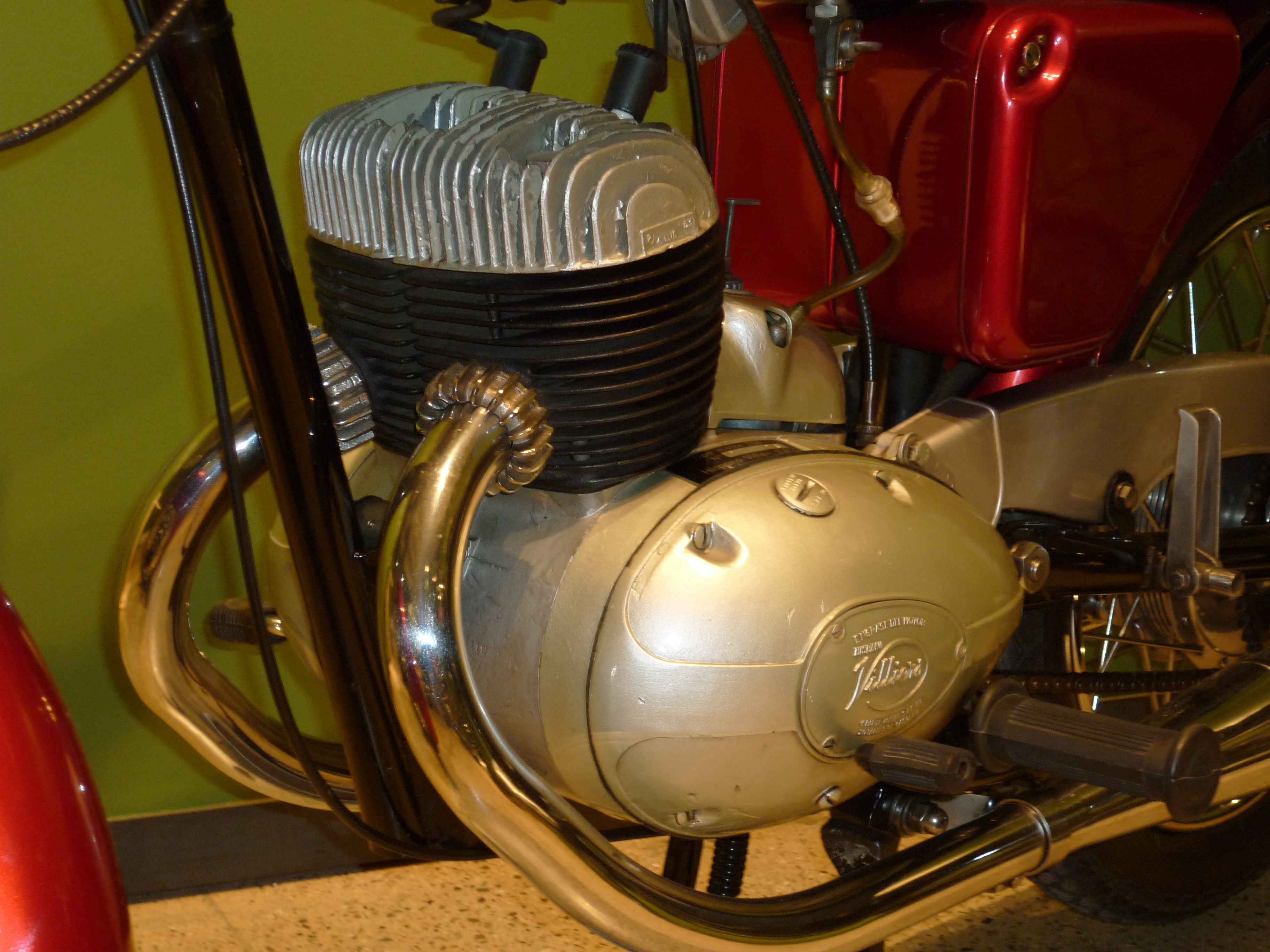 Rovena 250 (1964) - Hispano Villiers engine view (Rovena was a second brand of Sanglas).Museu Industrial del Ter, Manlleu, Catalonia (9 to 21 november 2010)